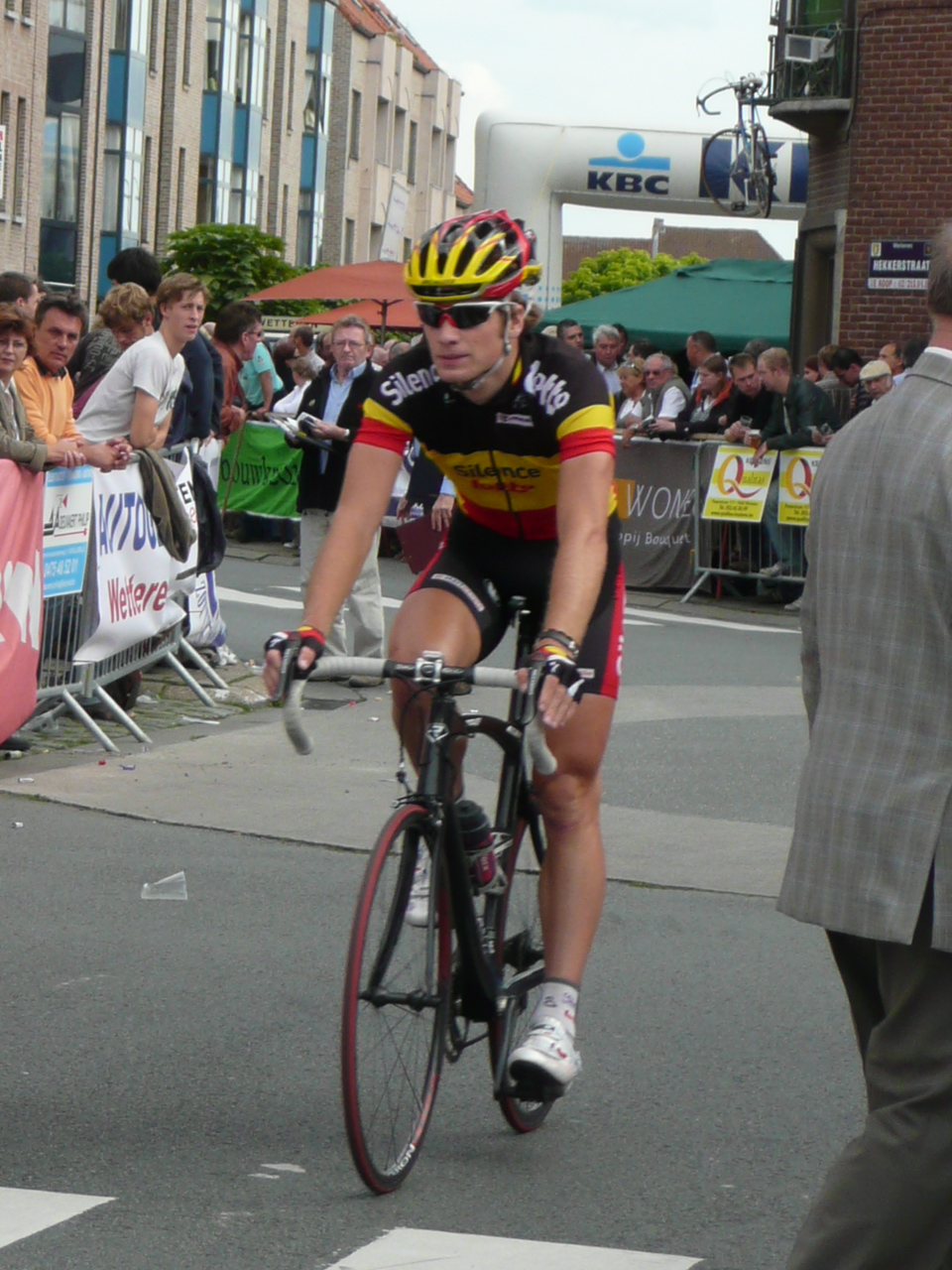 Jürgen Roelandts at Dernyfestival Wetteren